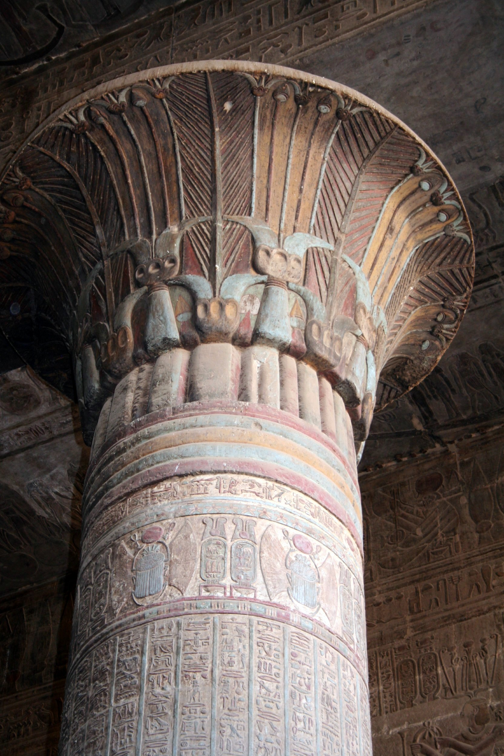 Columns at the temple of Khnum, Esna - Although badly damaged by early fire as were the ones at Esna, they still retain much of their beauty...